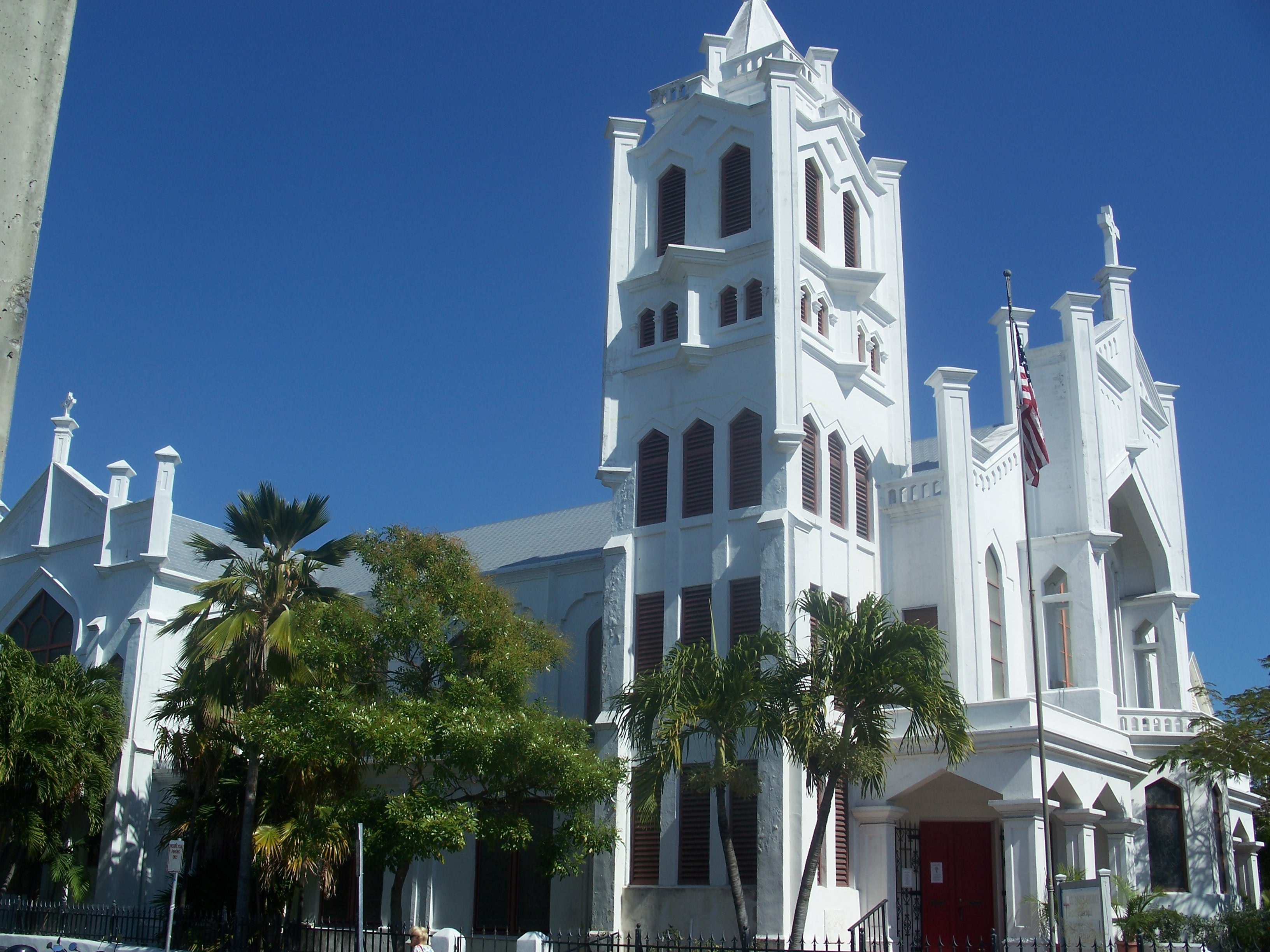 Key West, Florida: Key West Historic District: St. Paul's Episcopal Church